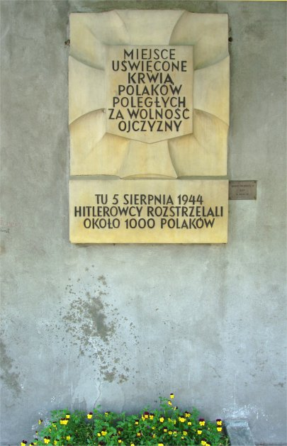 a commemorative plaque, Wolska street, Warsaw, Poland.